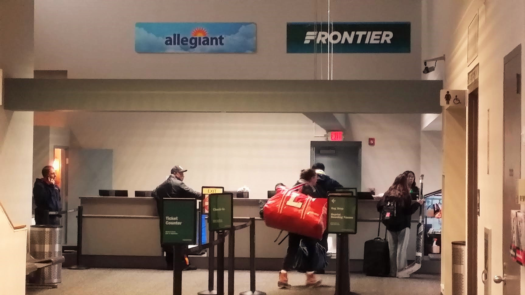 Allegiant and Frontier Check-in Counter at Trenton-Mercer Airport in Ewing Township, NJ